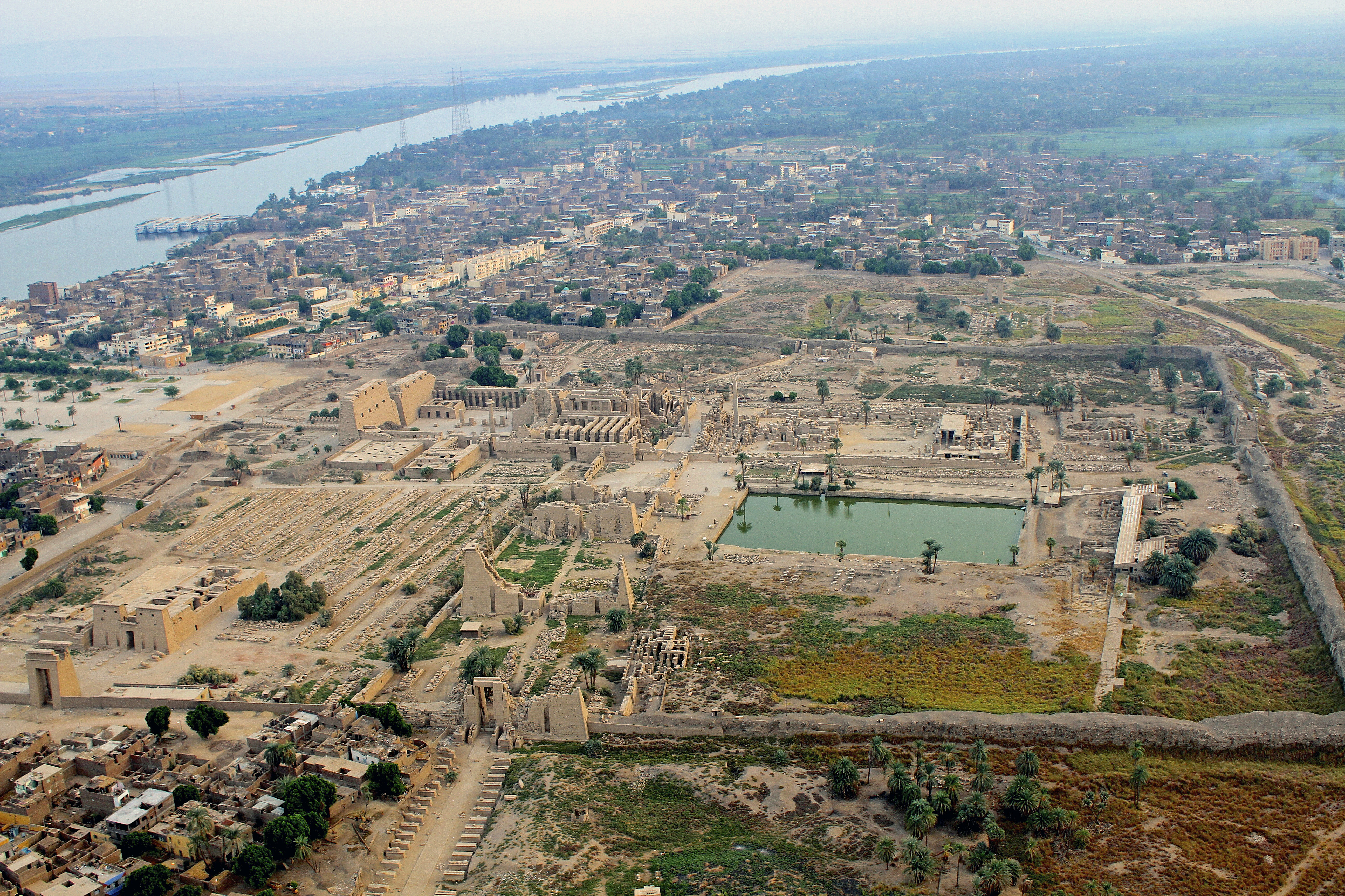 Karnak Temples at Luxor